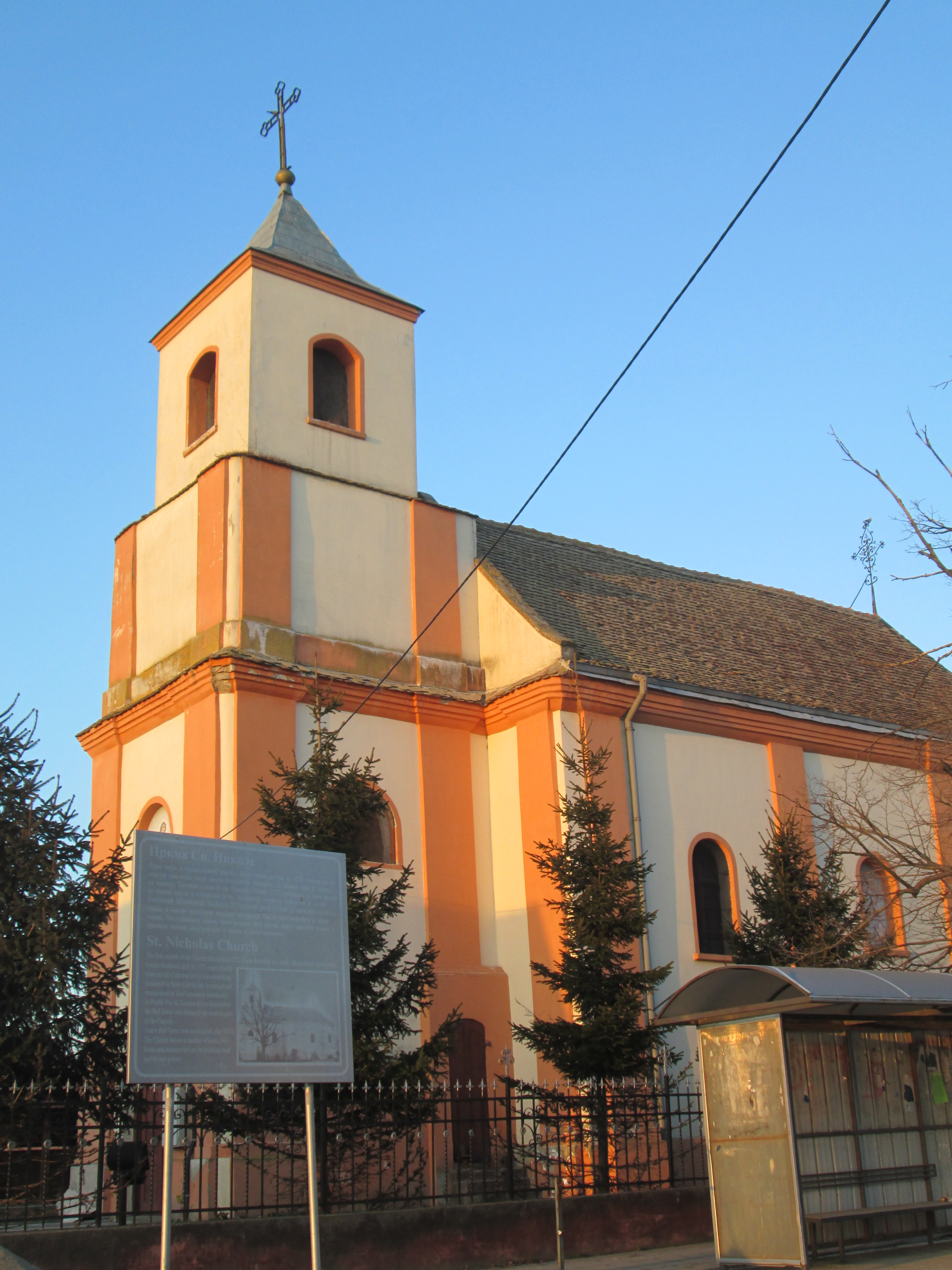 St. Nicholas Church, PopinciСрпски (ћирилица): Црква Св. Николе, Попинци